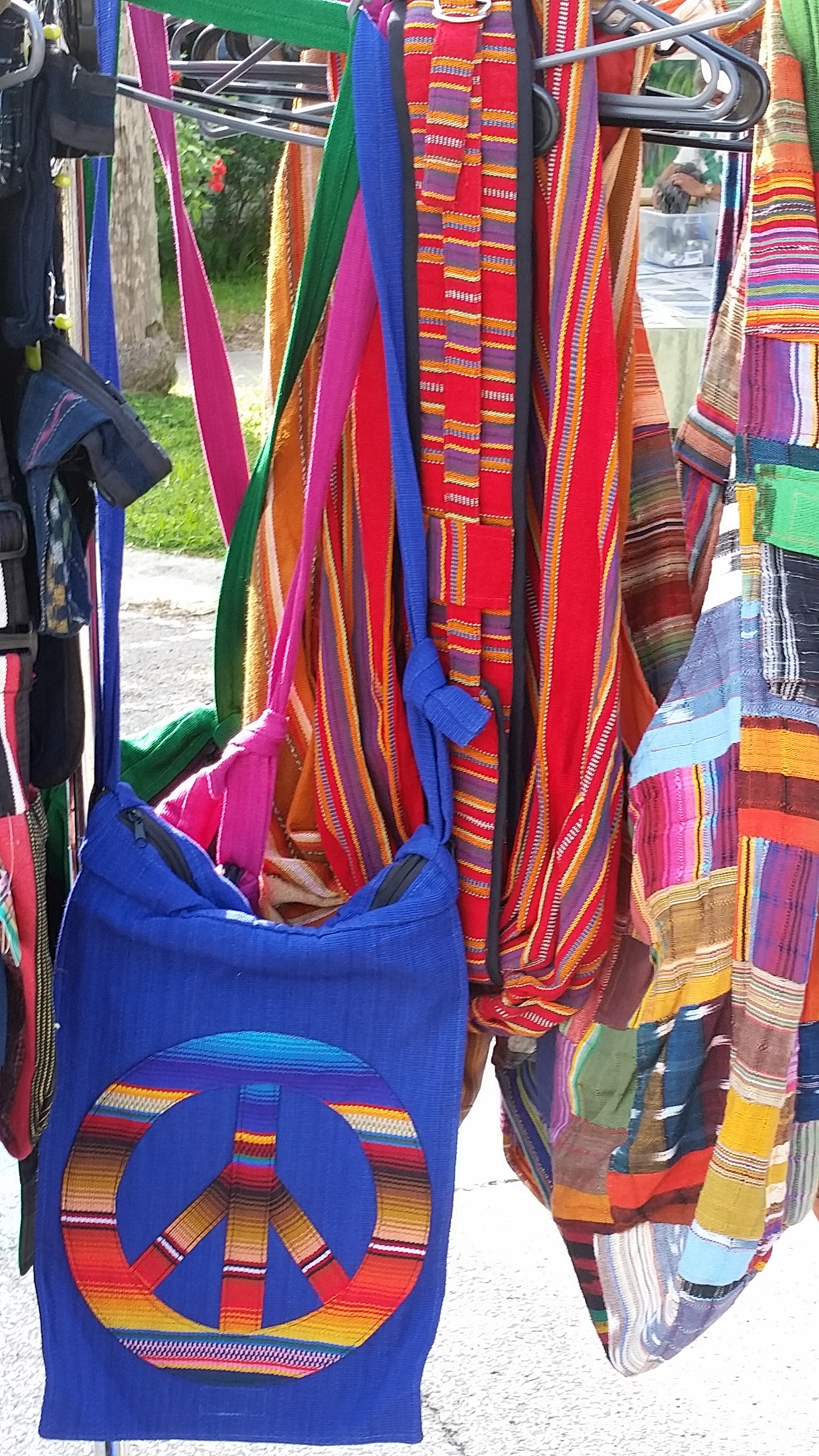 Gulfport Merchant's Association present the 14th Annual GeckoFest. 3129 Beach Blvd., Gulfport 33707 #GeckoFest